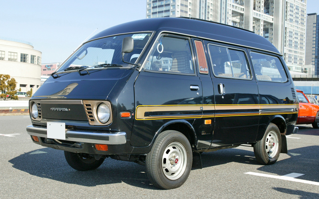 1978 Toyota Town Ace ( Townace ) Wagon, the first generation.